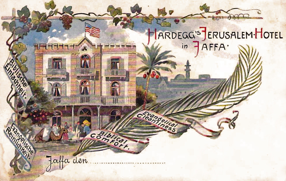 Hardegg's Jerusalem Hotel, Original Postcard